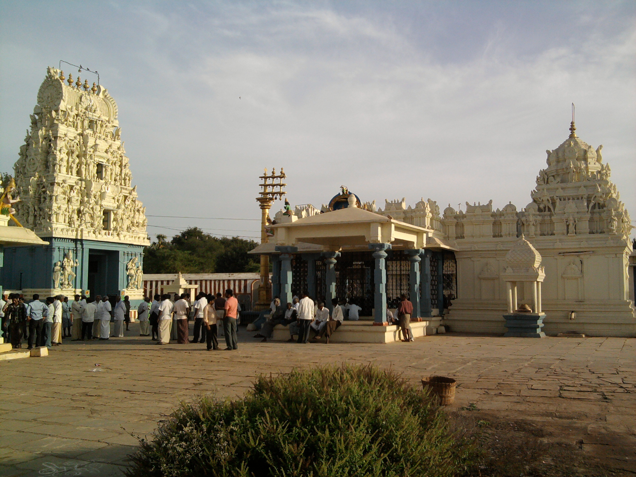 Sri Chennakesava Swami Temple, Vinjamur